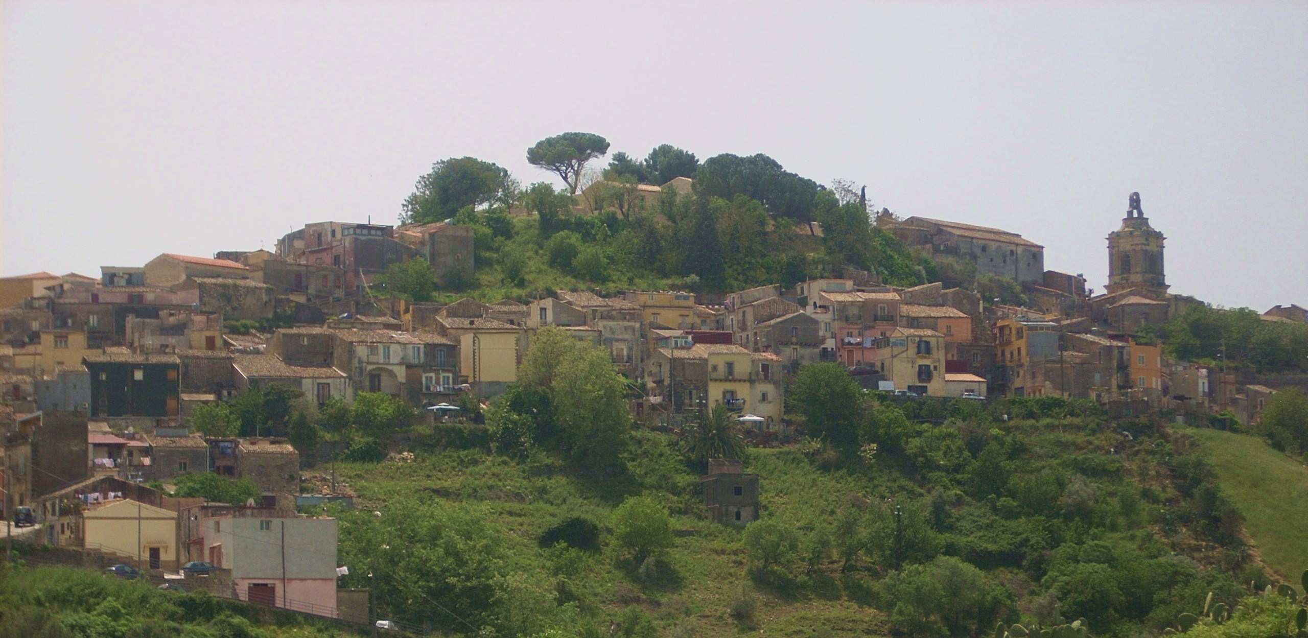 A panorama of Vizzini as seen from the valley